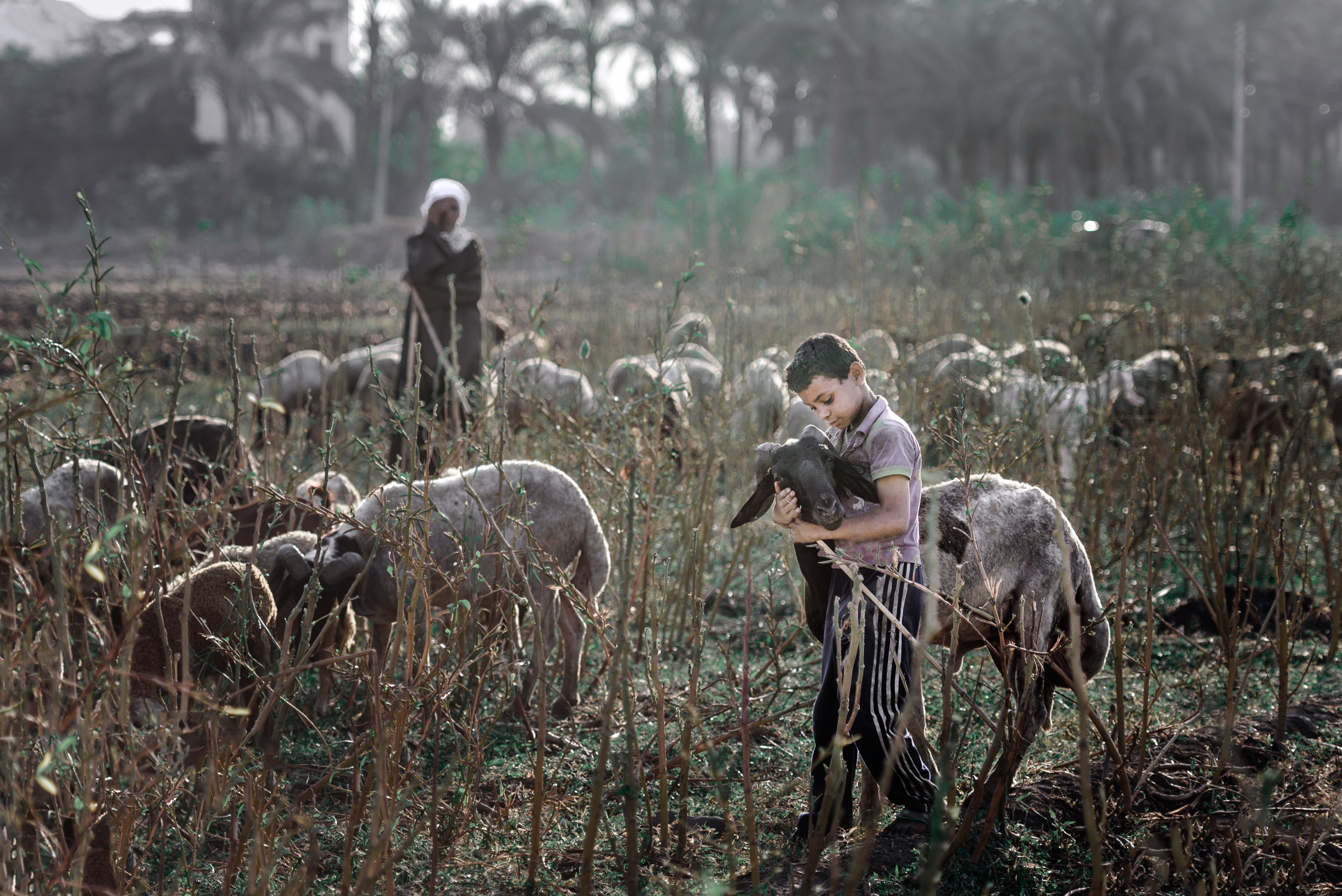 This is an image of "African people at work" from Egypt